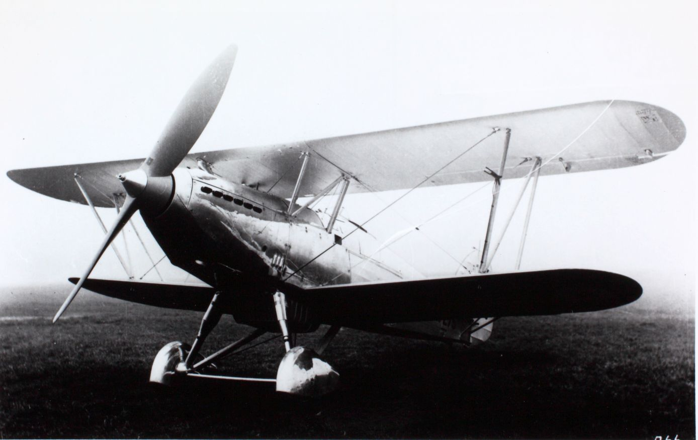 Image from the Charles Daniels Photo Collection album "British Aircraft." SOURCE INSTITUTION: San Diego Air and Space Museum Archive